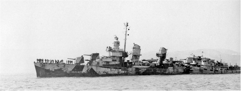 The U.S. Navy destroyer USS Evans (DD-552) showing her battle damage upon arrival at the Mare Island Naval Shipyard, California (USA), on 28 July 1945. Evans had been hit by four kamikaze suicide planes off Okinawa on the night of 10-11 May 1945. After emergency repairs at Kerama Retto, Evans was towed to San Francisco, where she was decommissioned 7 November 1945. She was sold for scrap on 11 February 1947.